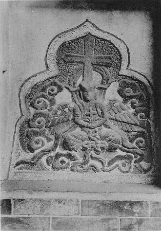 Nestorian headstone with an angel with four wings holding a Cross-on-the-Lotus symbol. Photograph of this stone was taken by the art historian Gustave Ecke c. 1927 which he found preserved in a Daoist temple in Quanzhou.